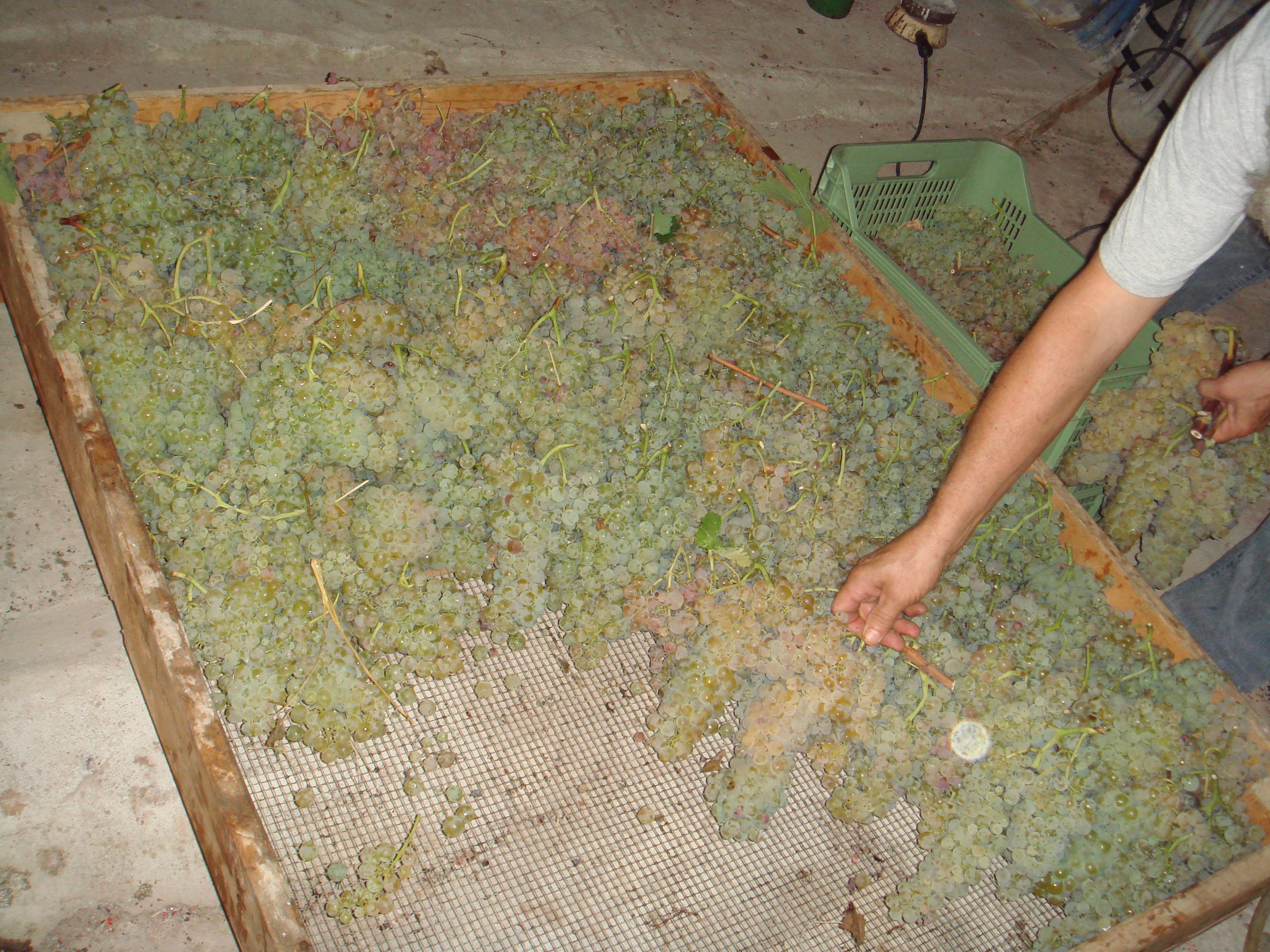 from author "Harvest grapes end of September and awaiting 2 or 3 month before to press the grapes."